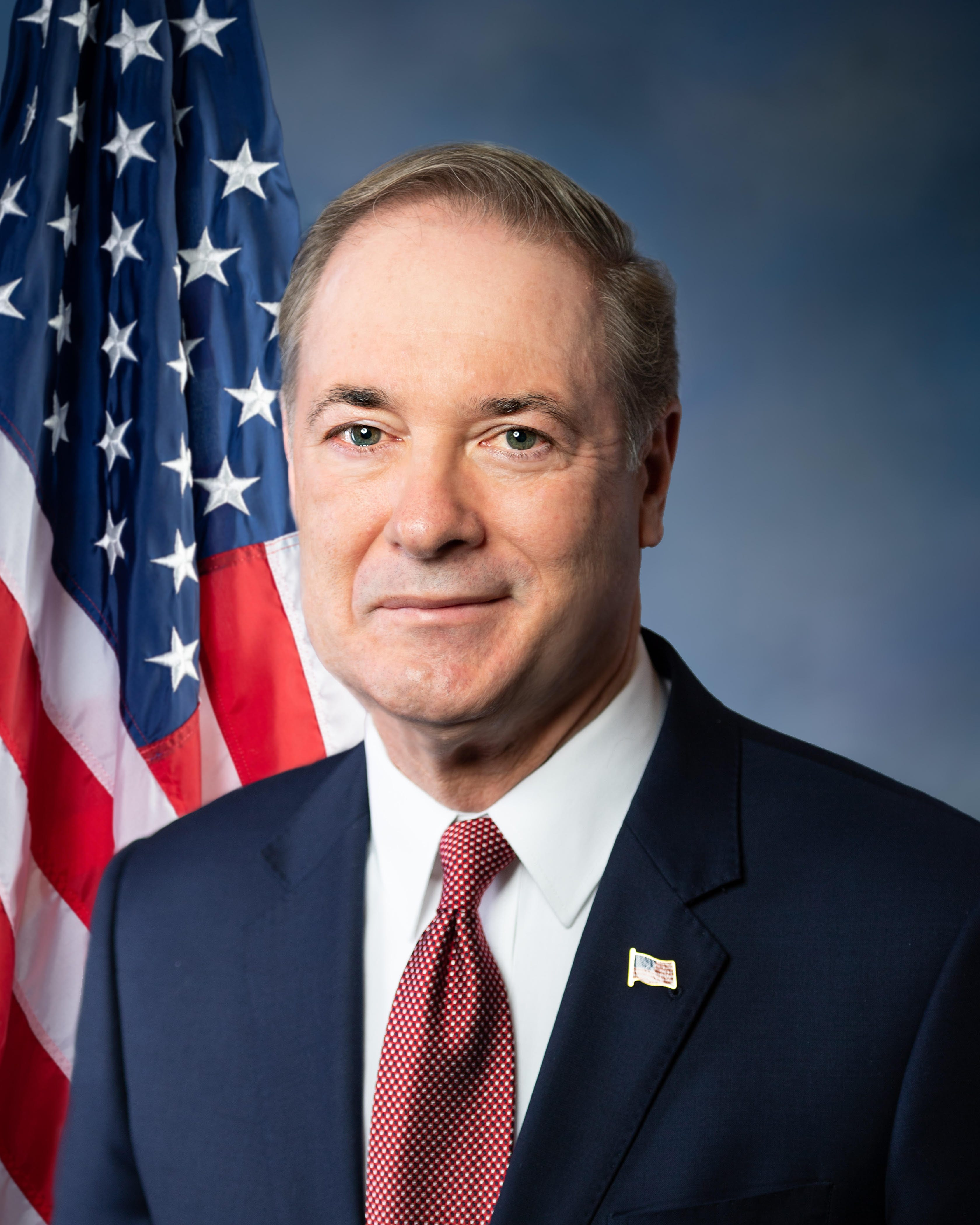 The official headshot of Rep. John Joyce (R-PA)